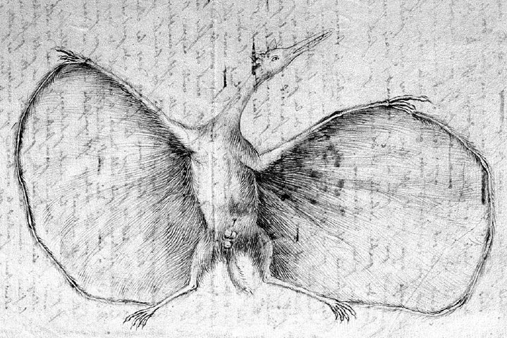 First of two life restorations of Pterodactylus antiquus by Jean Hermann of Strasbourg, sent to George Cuvier in 1800.